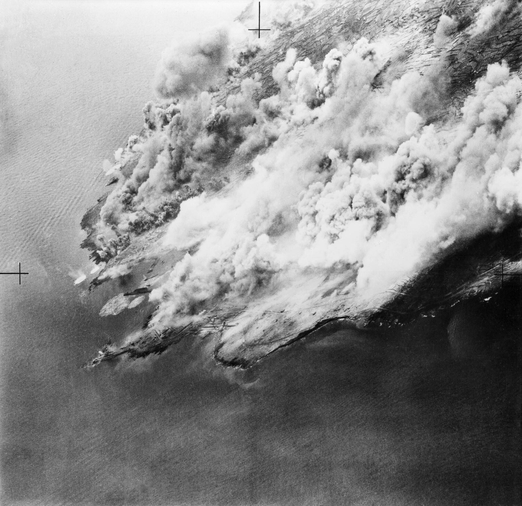 The island of Pantelleria in the Mediterranean, wreathed in smoke from bursting bombs during the Allied bombardment of June 1943. Capture of the island was a vital precursor to the invasion of Sicily in July. Pantelleria and Lampedusa May - June 1943: Aerial view of Pantelleria wreathed in smoke from bursting bombs during the Allied bombardment.